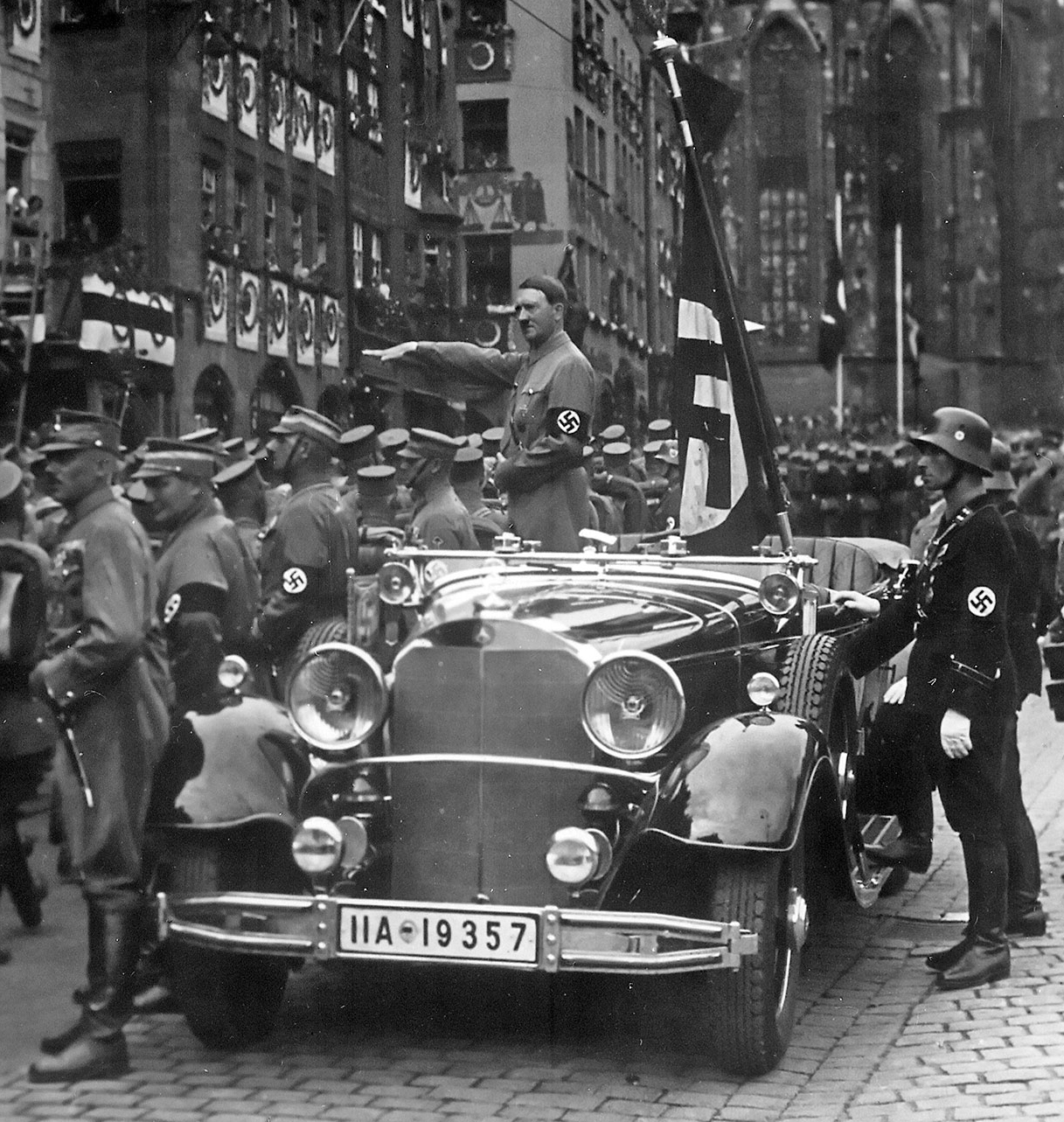 Parade of SA troops past Hitler. Nuremberg, Germany.